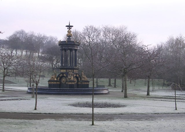 Frosty morning in Alexandra Park.